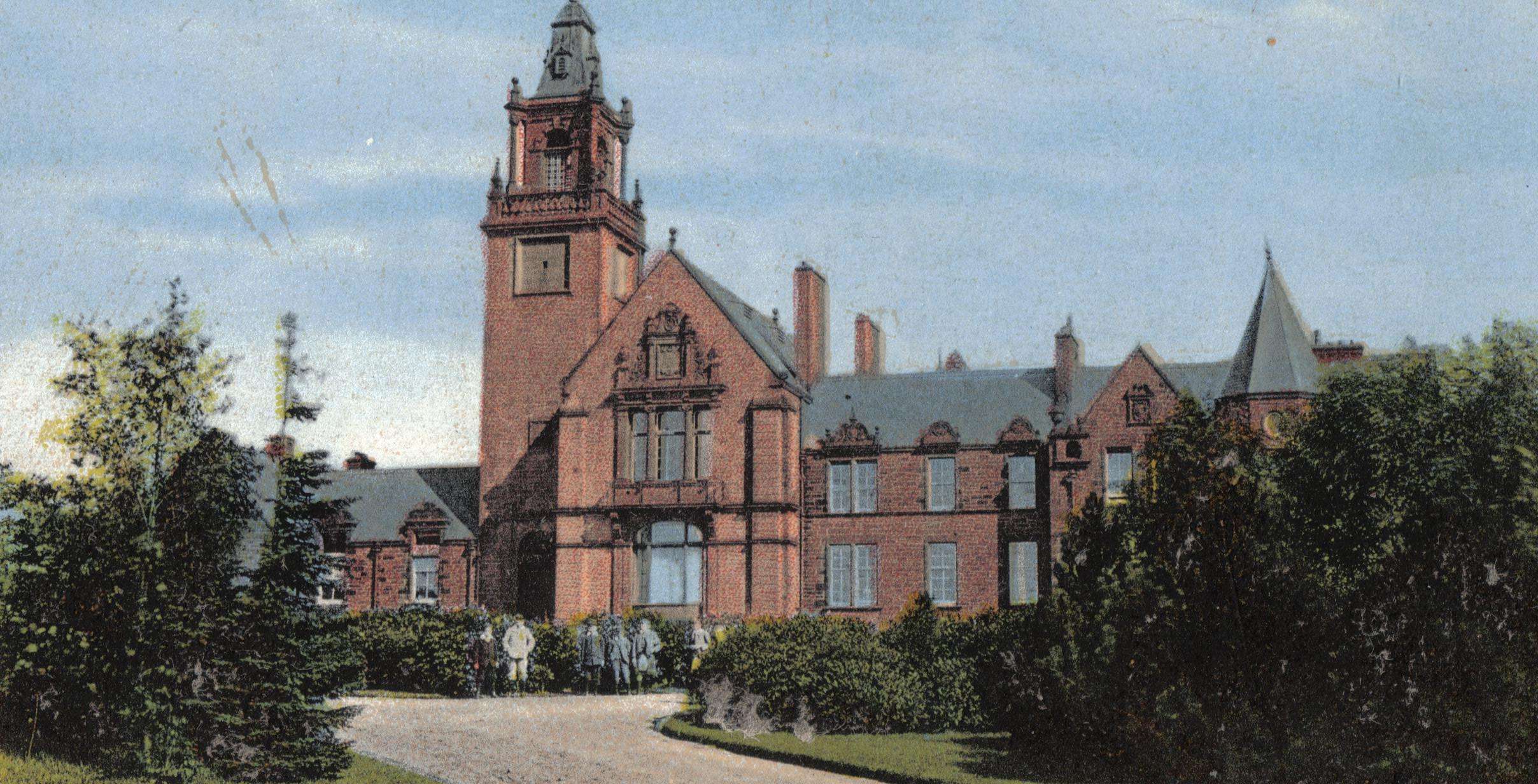 Spier's School, Beith, North Ayrshire, Scotland